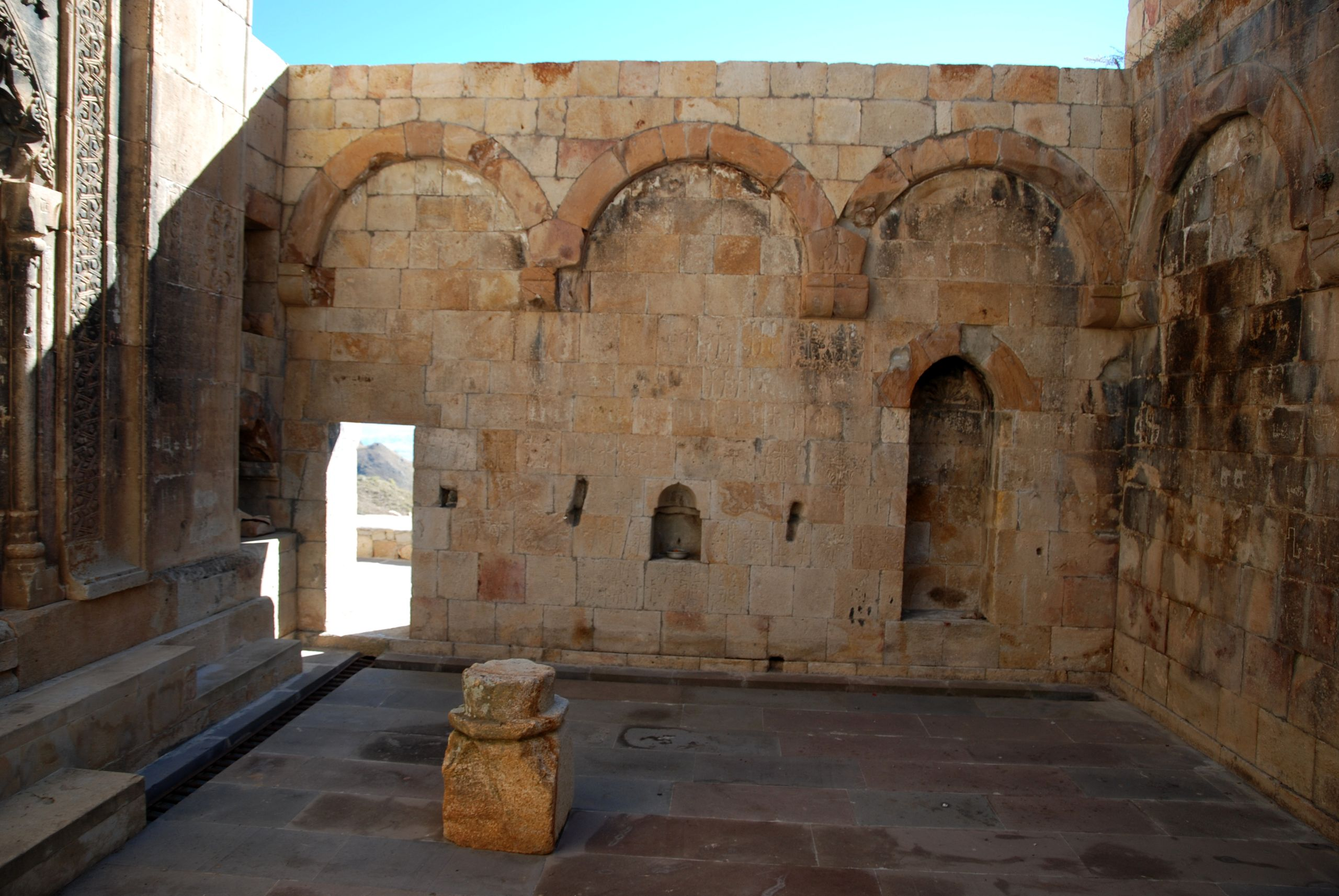 Spitakavor, gavit?